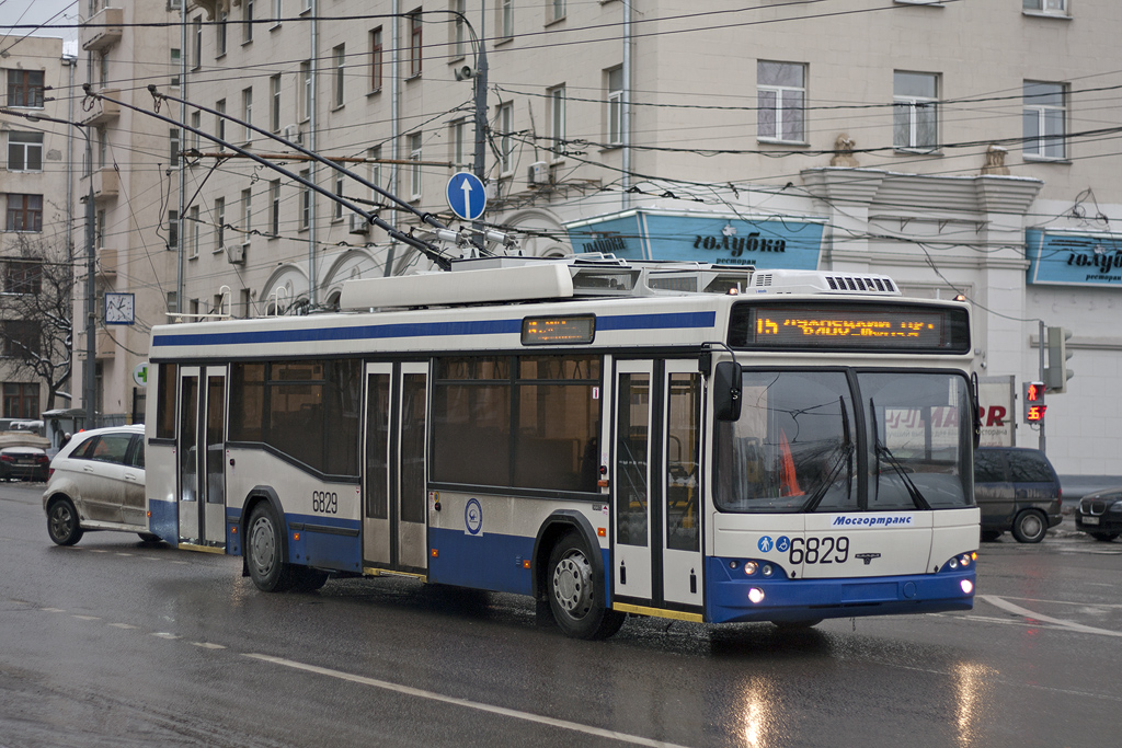 SVARZ-type trolleybus #6829 on Moscow local route 15